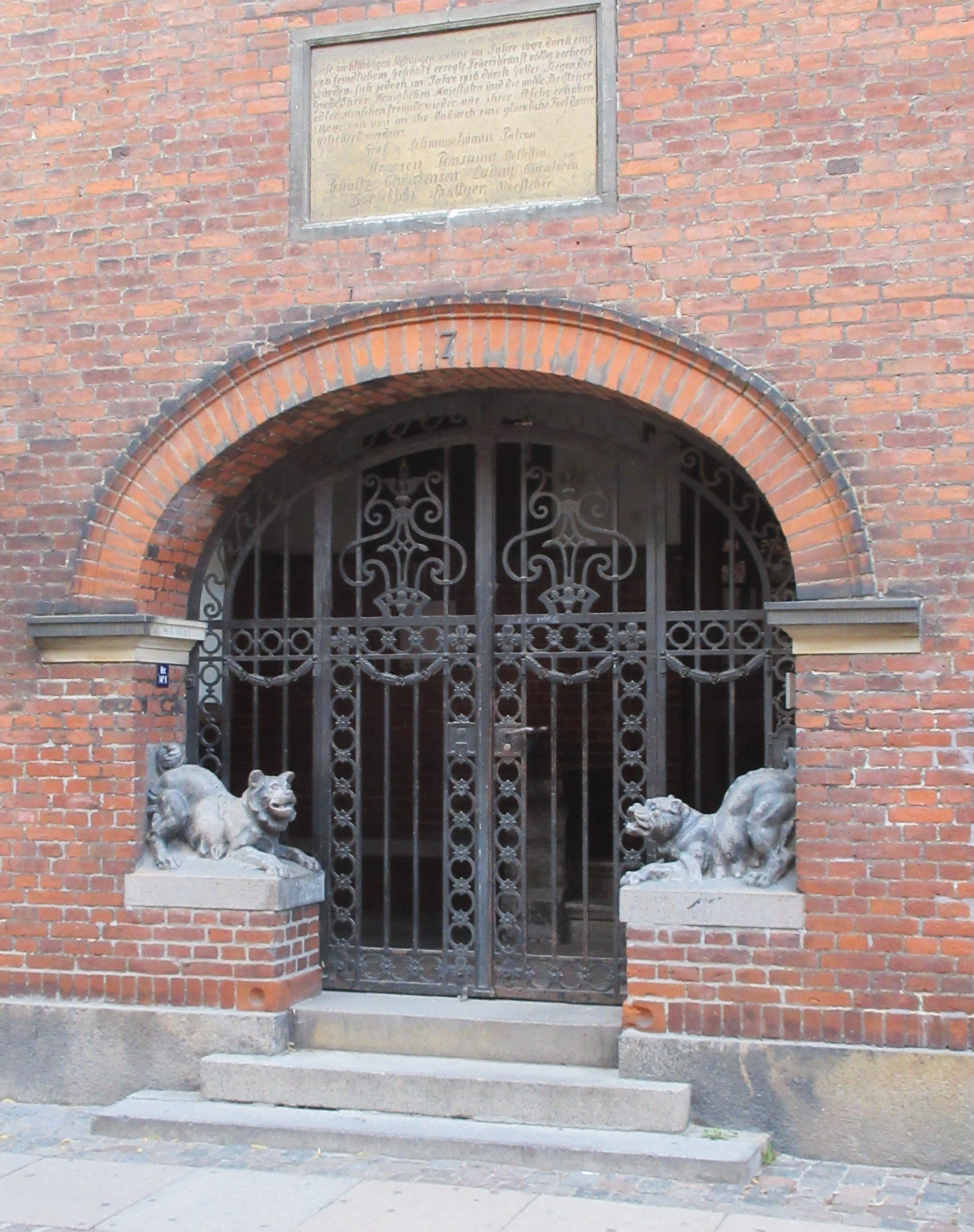 The entrance to Sankt Petri Plejehus, Thymes og Pelts Stiftelse at Larslejsstræde 7 in Copenhagen, Denmark